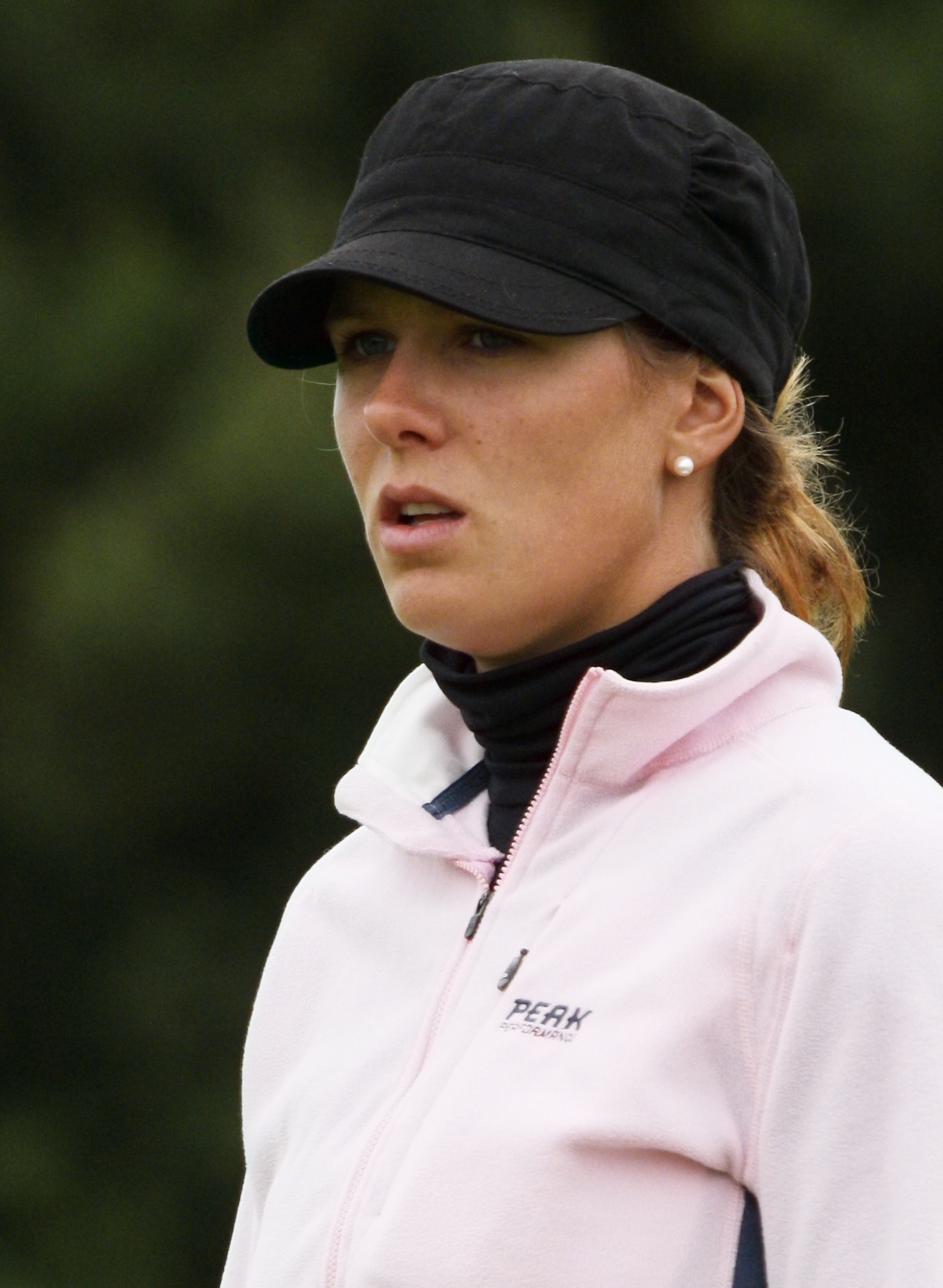 LYTHAM ST ANNES, UNITED KINGDOM - JULY 29: Marianne Skarpnord of Norway on the 11th green during third practice round before 2009 Ricoh Women's British Open held at Royal Lytham & St Annes on July 29, 2009 in Lytham St Annes, England. (Photo by Wojciech Migda)